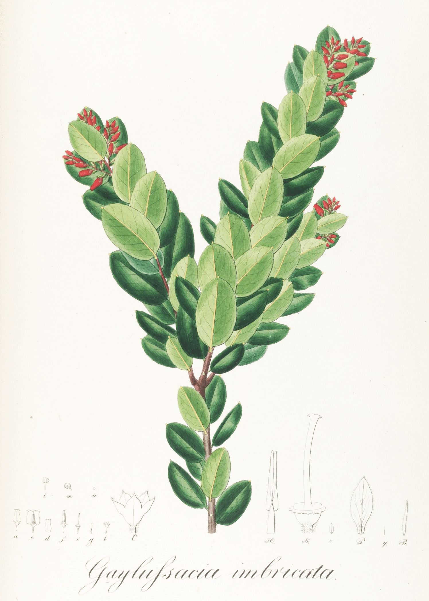 Plate from book